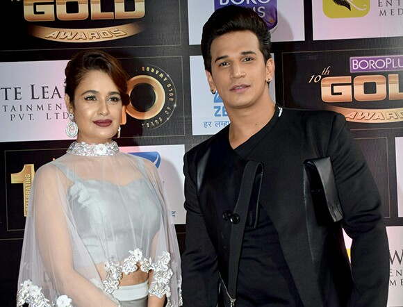 Prince Narula & Yuvika Choudhary at Gold Awards 2017